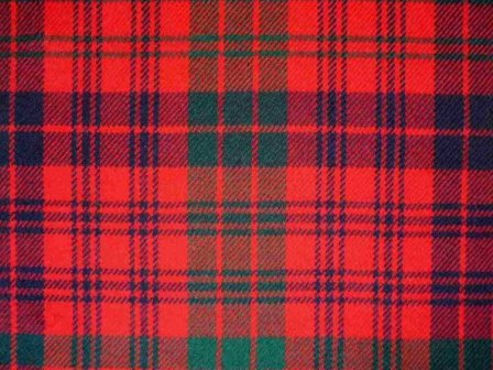 Clan Ross Red Tartan